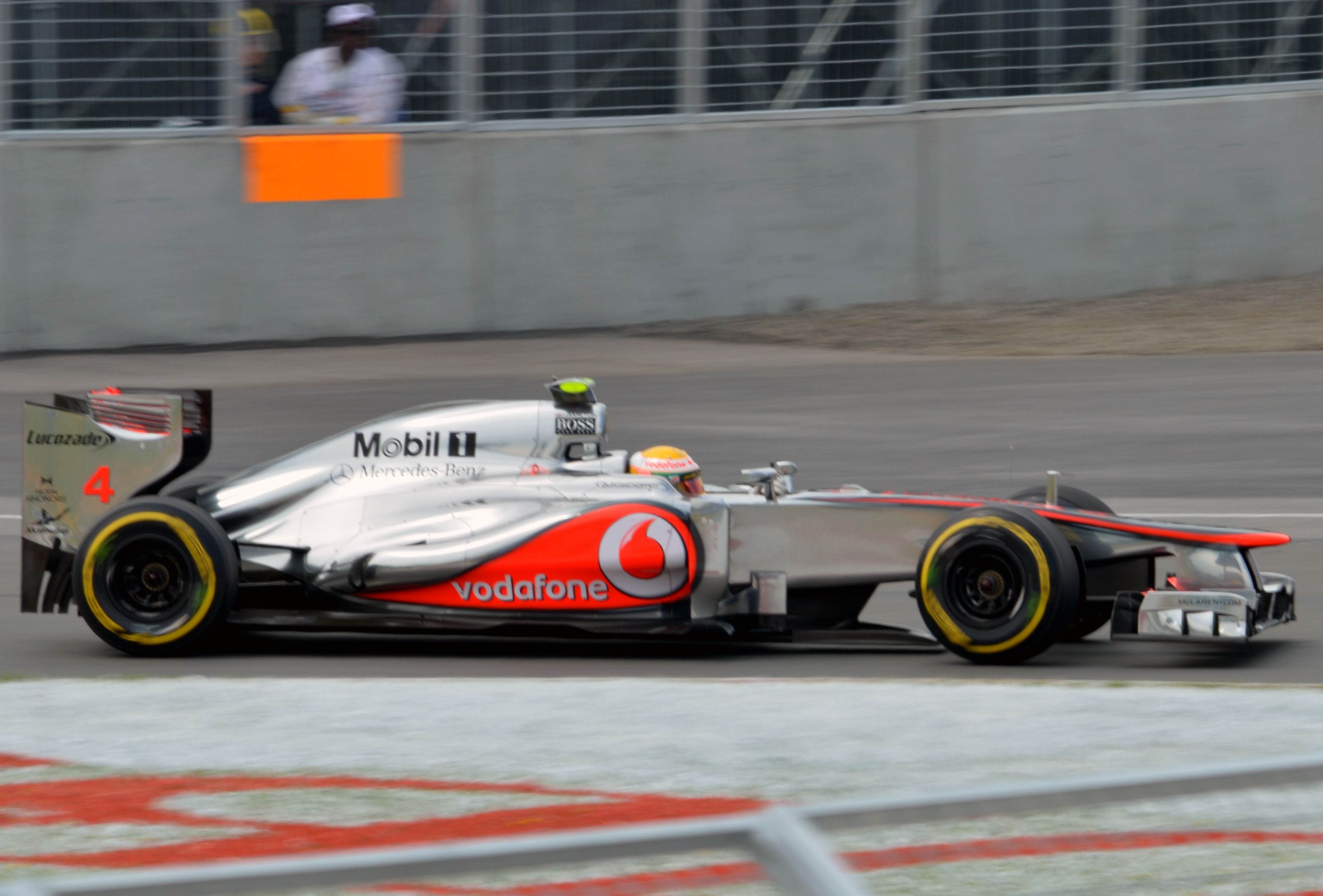 Lewis Hamilton in the McLaren - Mercedes MP4-27 at L'Epingle hairpin corner of Circuit Gilles Villeneuve during second practice for the 2012 Canadian Grand Prix.